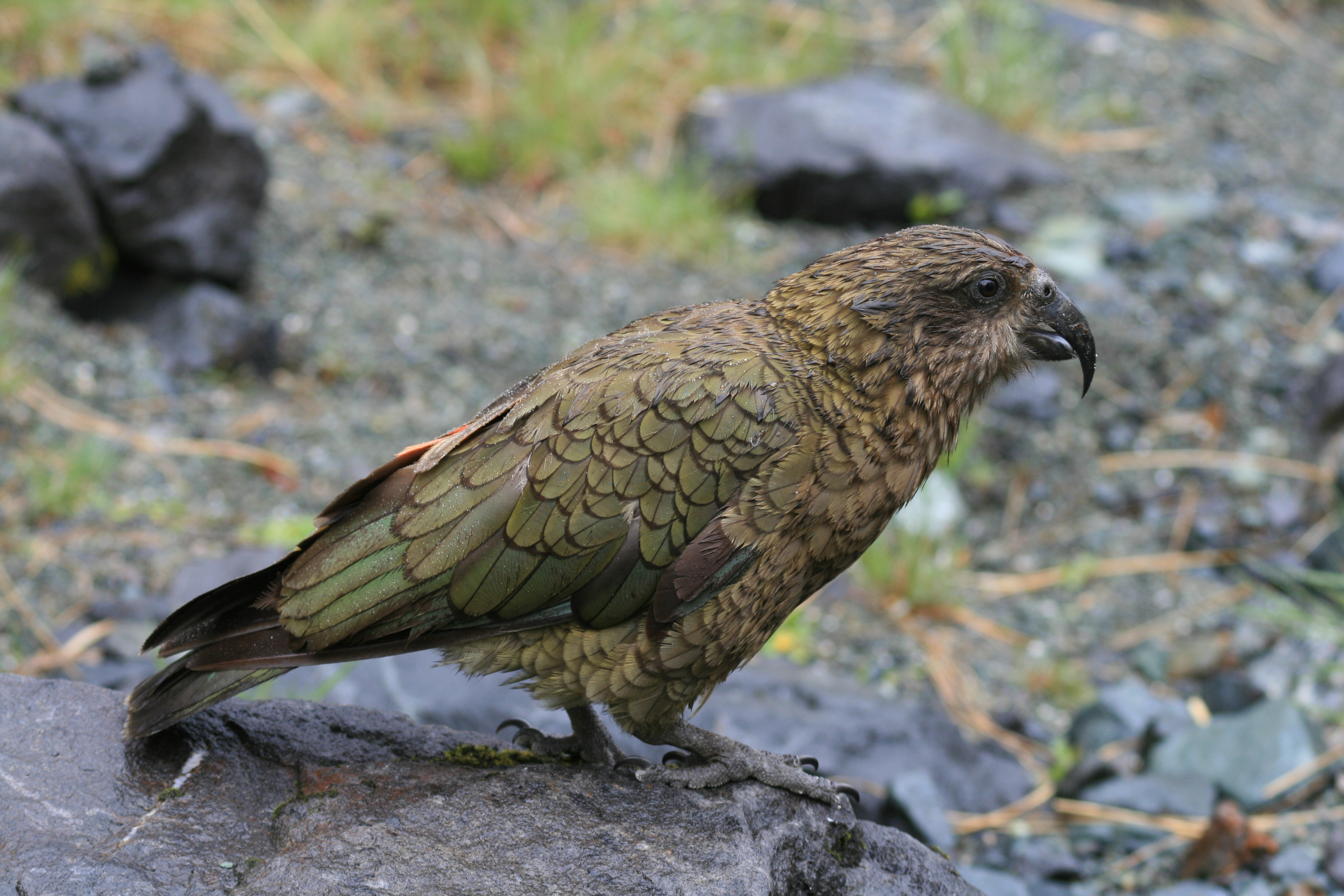 An adult Kea in Fiordland, New Zealand. Some of the feathers look slightly wet and there are some raindrops on its back.